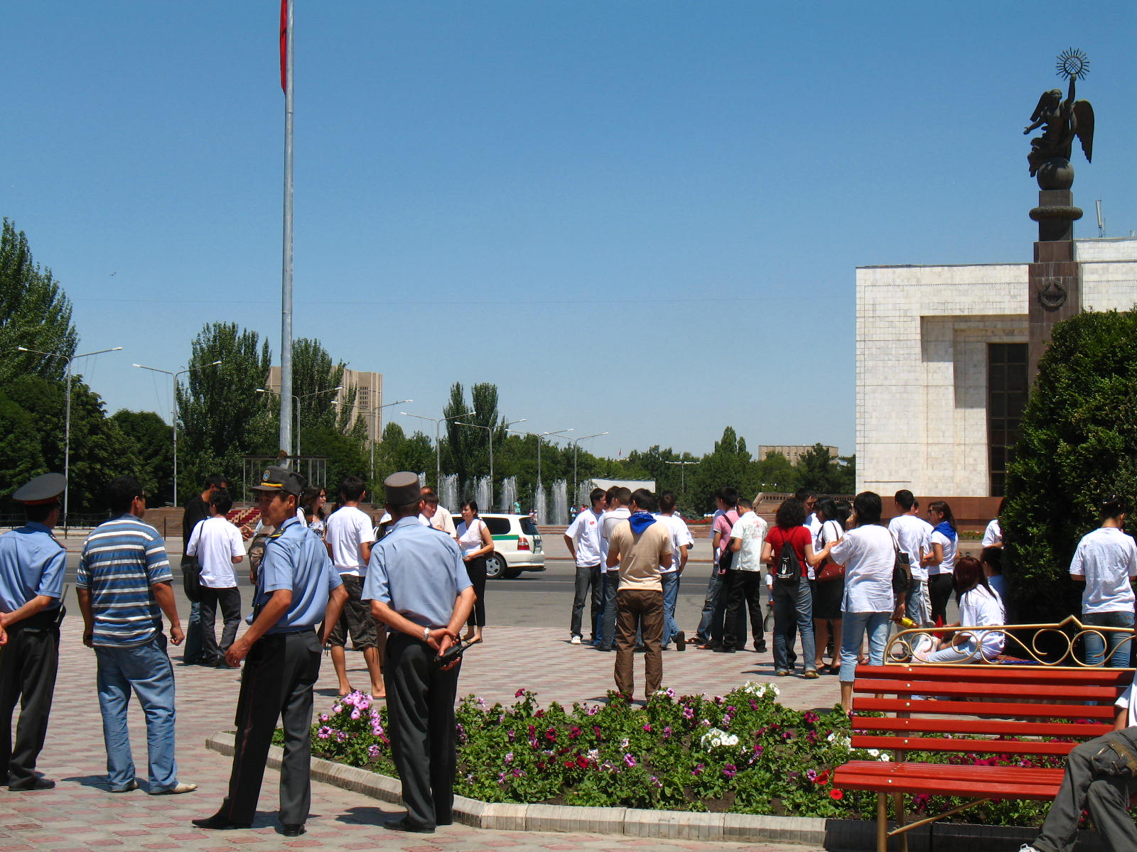 A rally in support of Kyrgyzstan presidential candidate Almaz Atambaev on July 1, 2009.